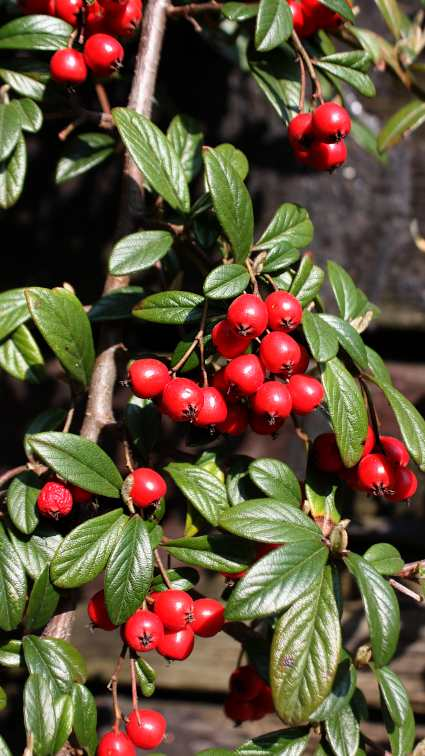 Cotoneaster dammeri with fruits in april 2009